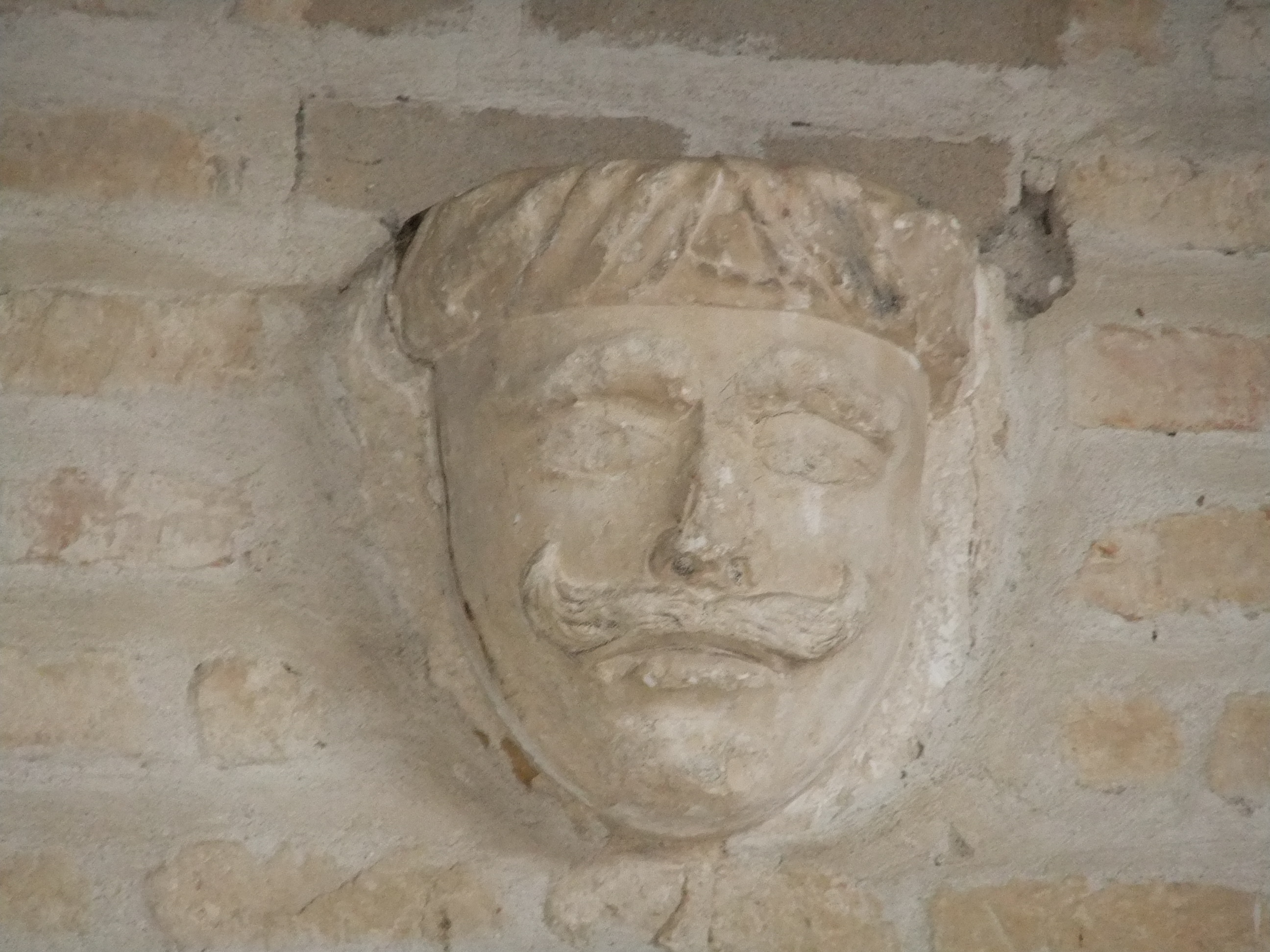 Iglesia de Santiago, Écija